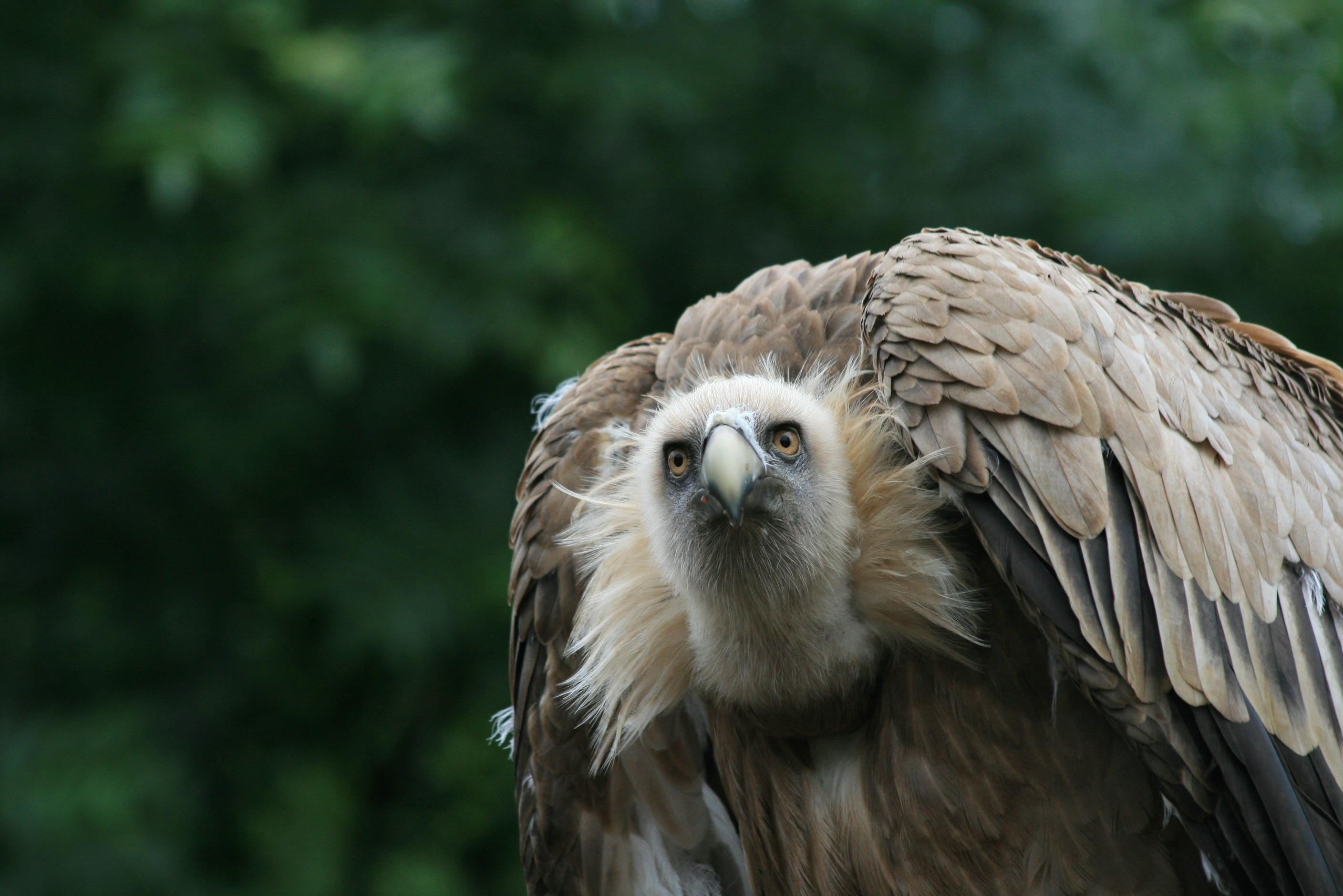 Portrait of an Gyps fulvus